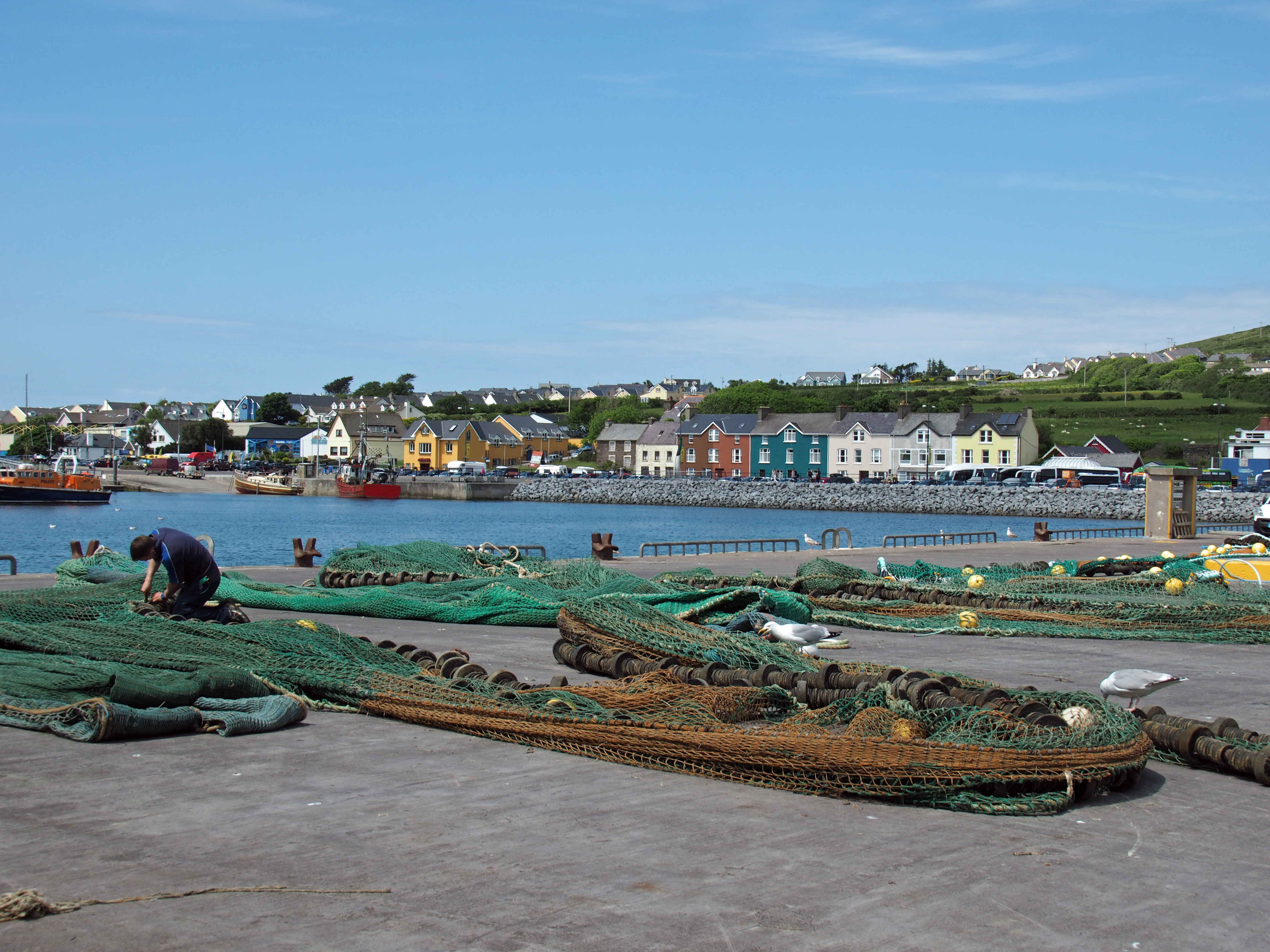 Dingle Harbour, Dingle Peninsula, County Kerry, Ireland